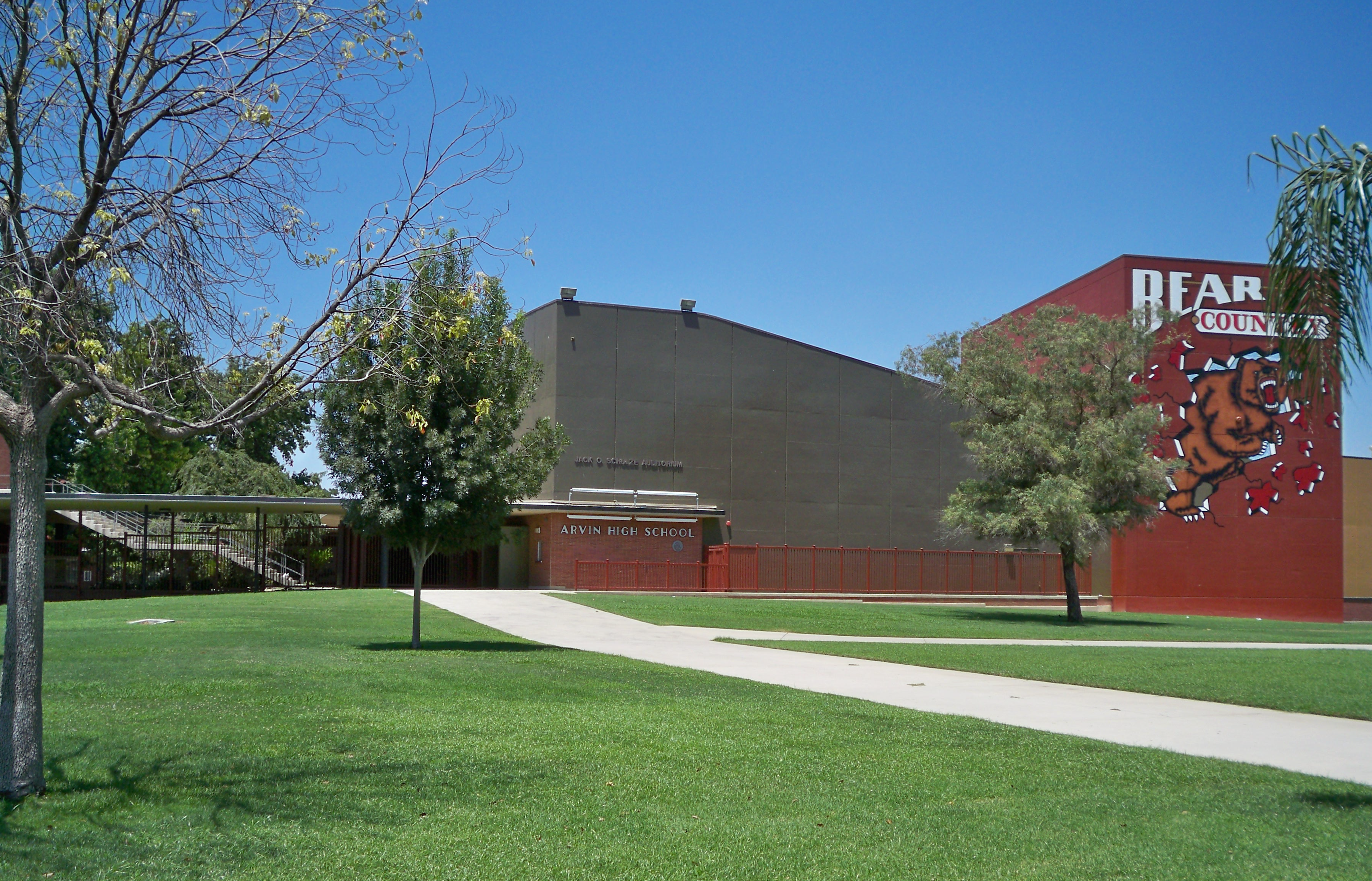 View from Varsity Road of Arvin High School in Arvin, California